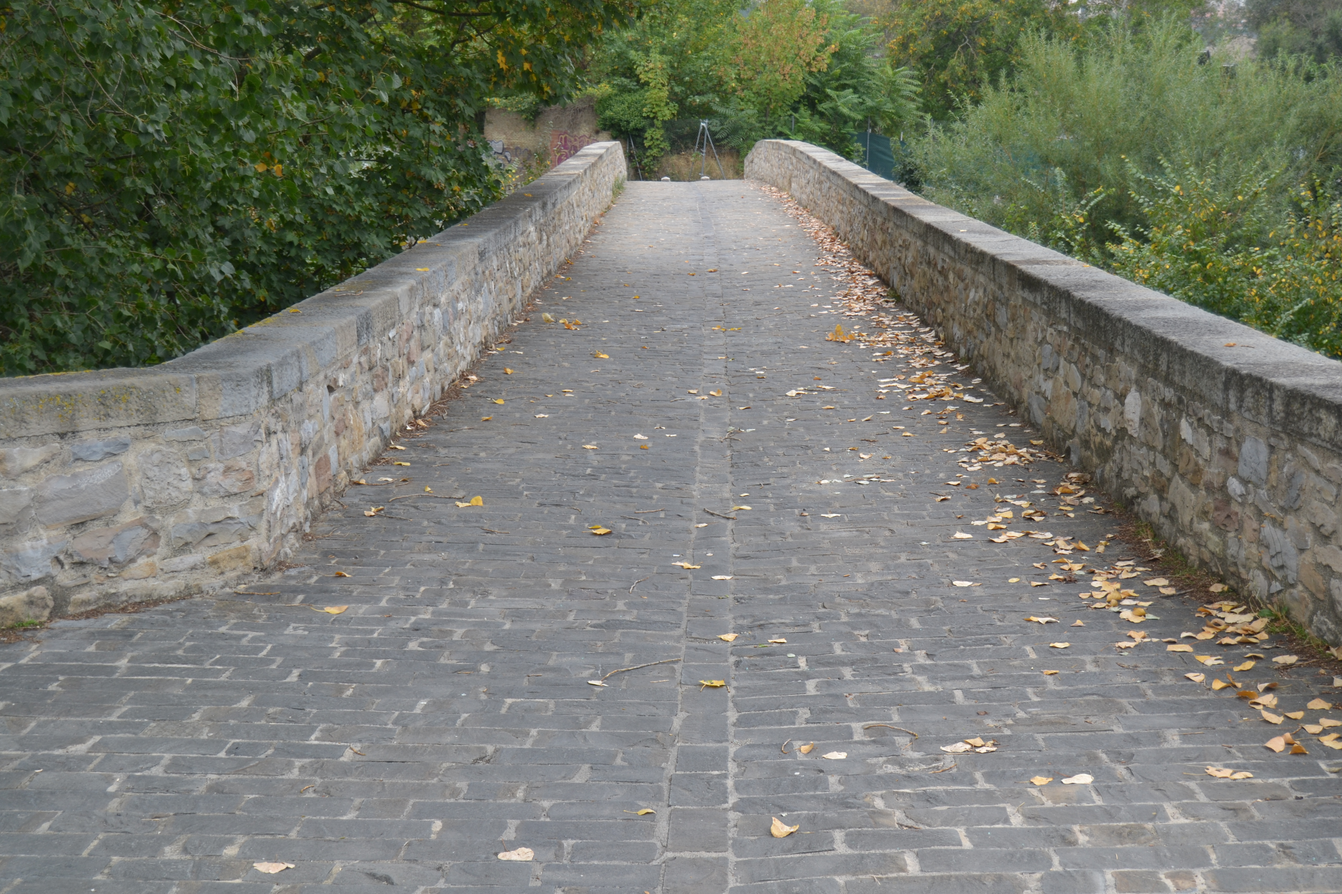 Bridge of Miluze. Iruñea-Pamplona, Navarre. Basque Country.